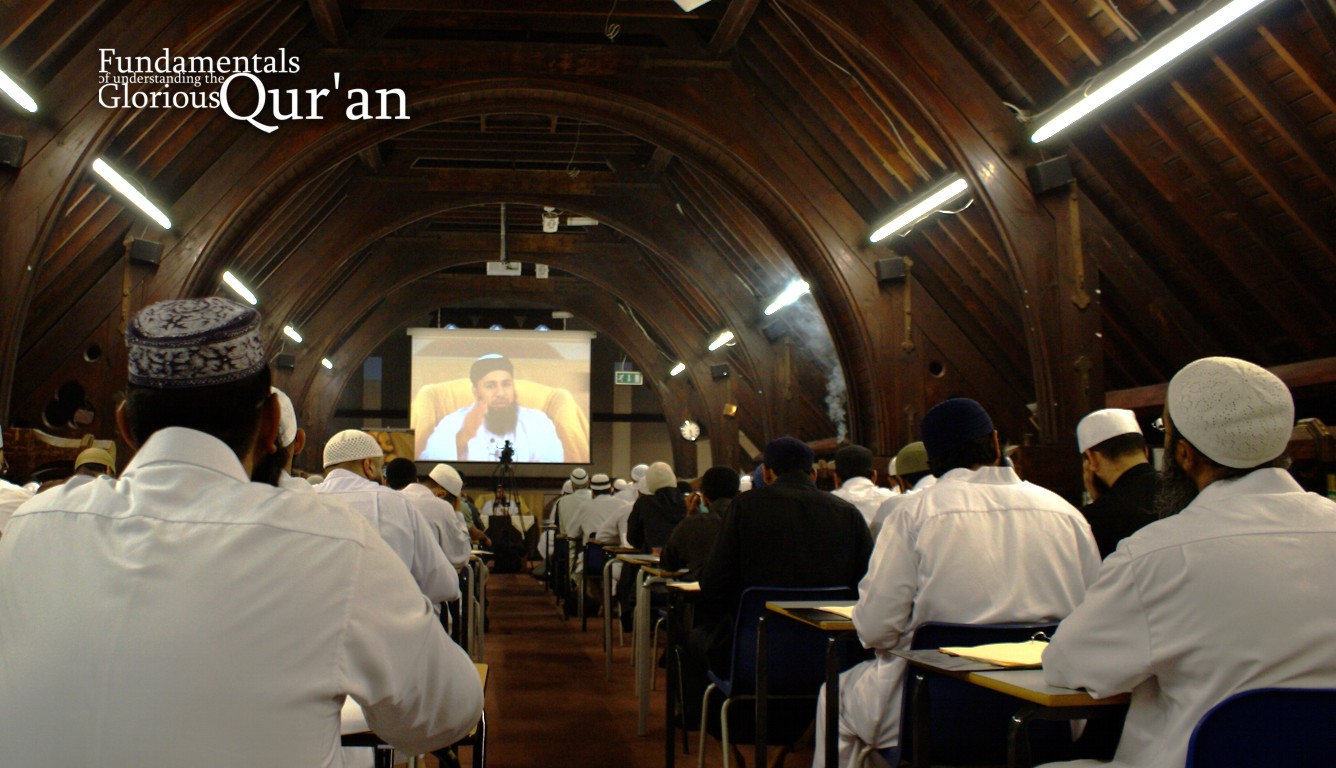 Shaykh Riyadh ul Haq teaching 'Fundamentals of the Holy Quran Course' in London June 2009